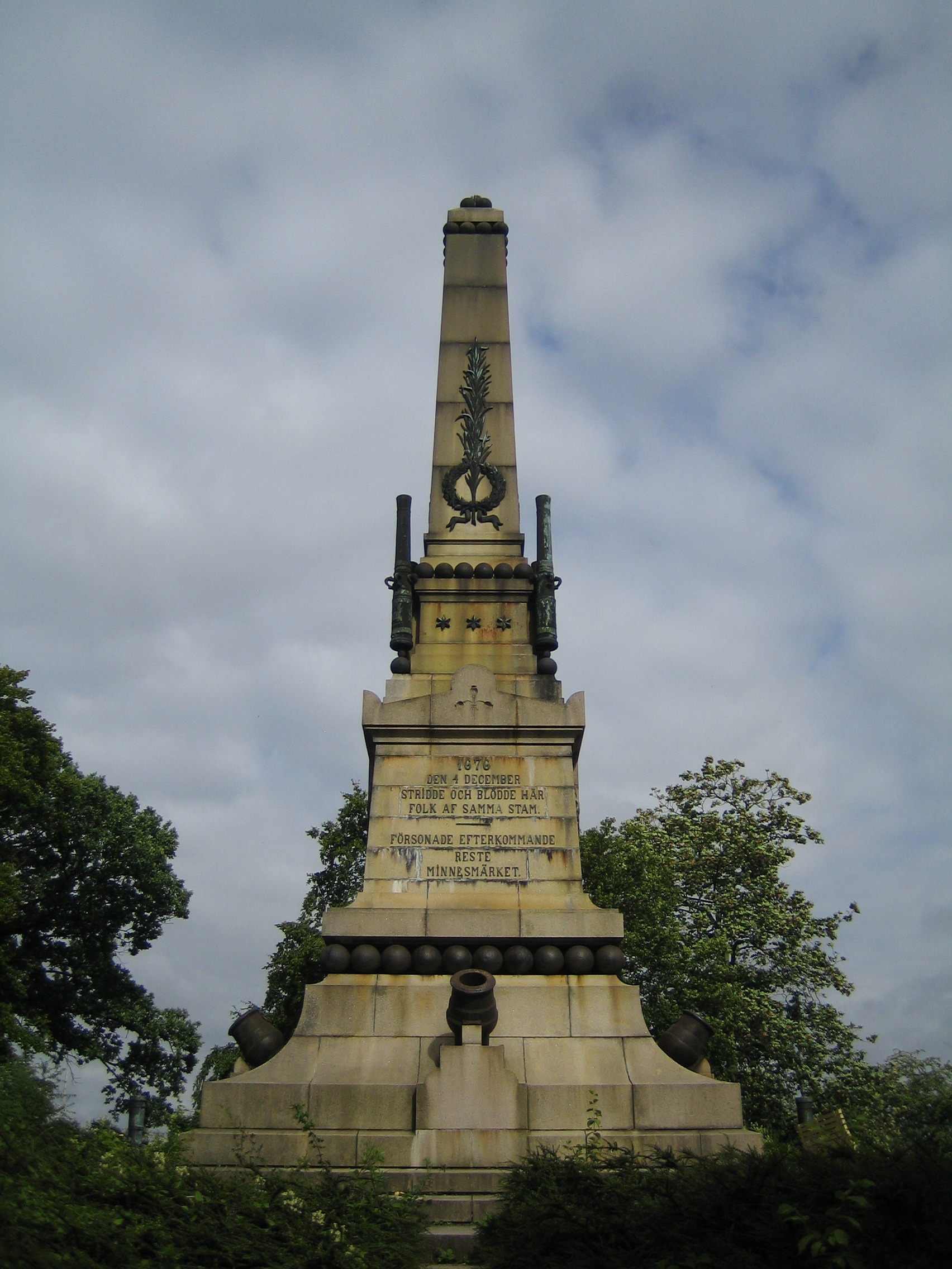 The monument commemorating the battle of Lund 1676.